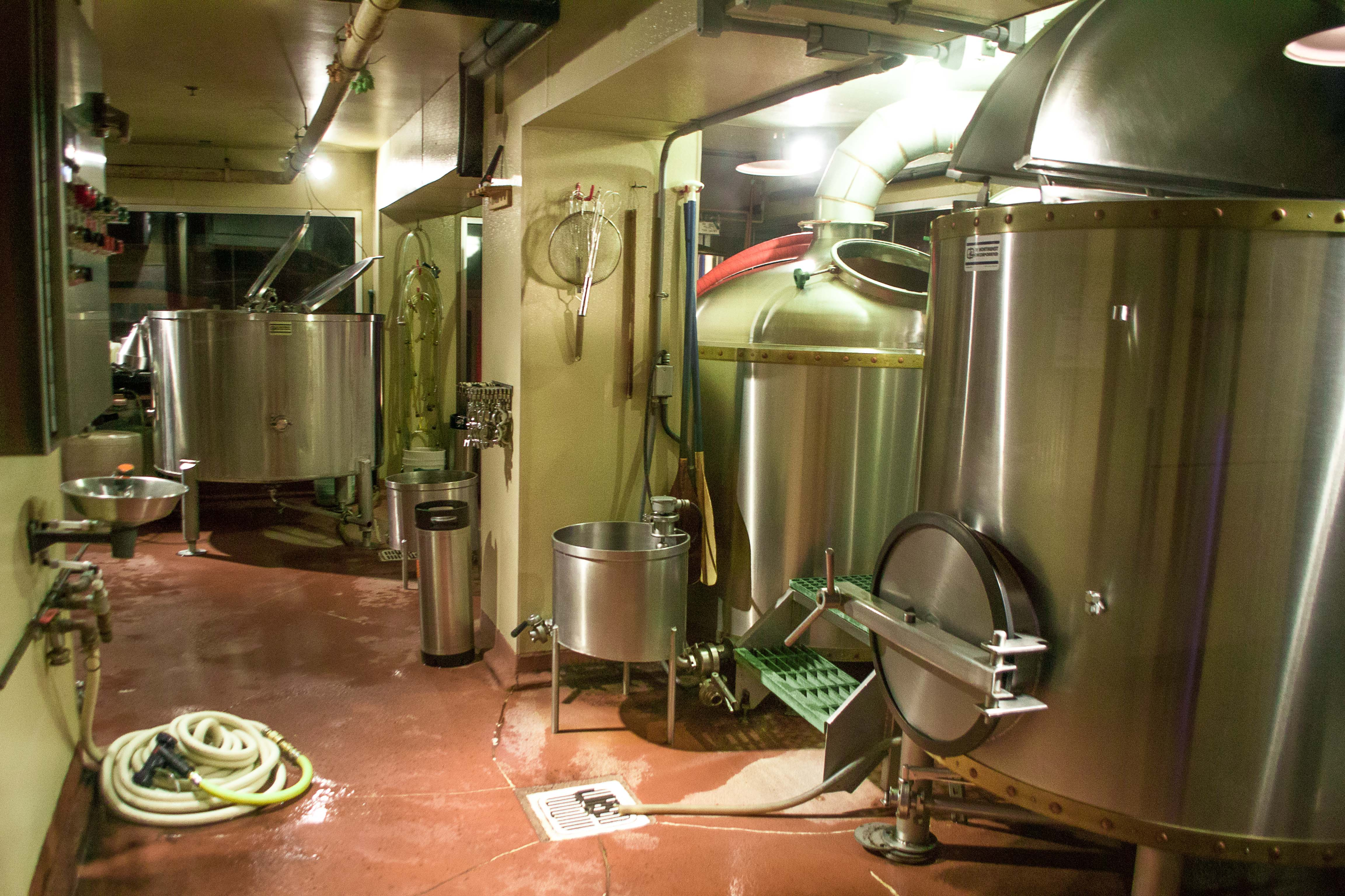 A craft brewery